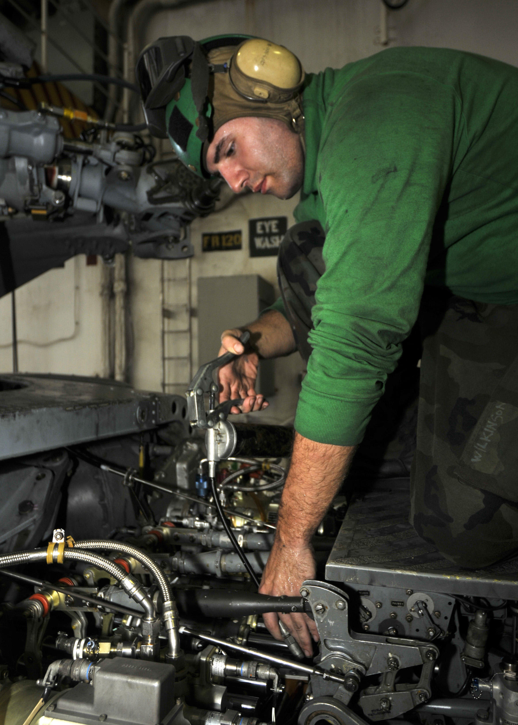 PACIFIC OCEAN (Sept. 23, 2010) Aviation Structural Mechanic 2nd Class Eric Wilkinson, from Ellsworth, Maine, greases a mixer assembly on an SH-60B Sea Hawk helicopter aboard the aircraft carrier USS George Washington (CVN 73). Aviation mechanics are responsible for maintaining hydraulic systems, landing gear, fuselage and control surfaces. George Washington, the Navy's only permanently forward-deployed aircraft carrier, is underway helping to ensure security and stability in the western Pacific Ocean. (U.S. Navy photo by Mass Communication Specialist 3rd Class David A. Cox/Released)